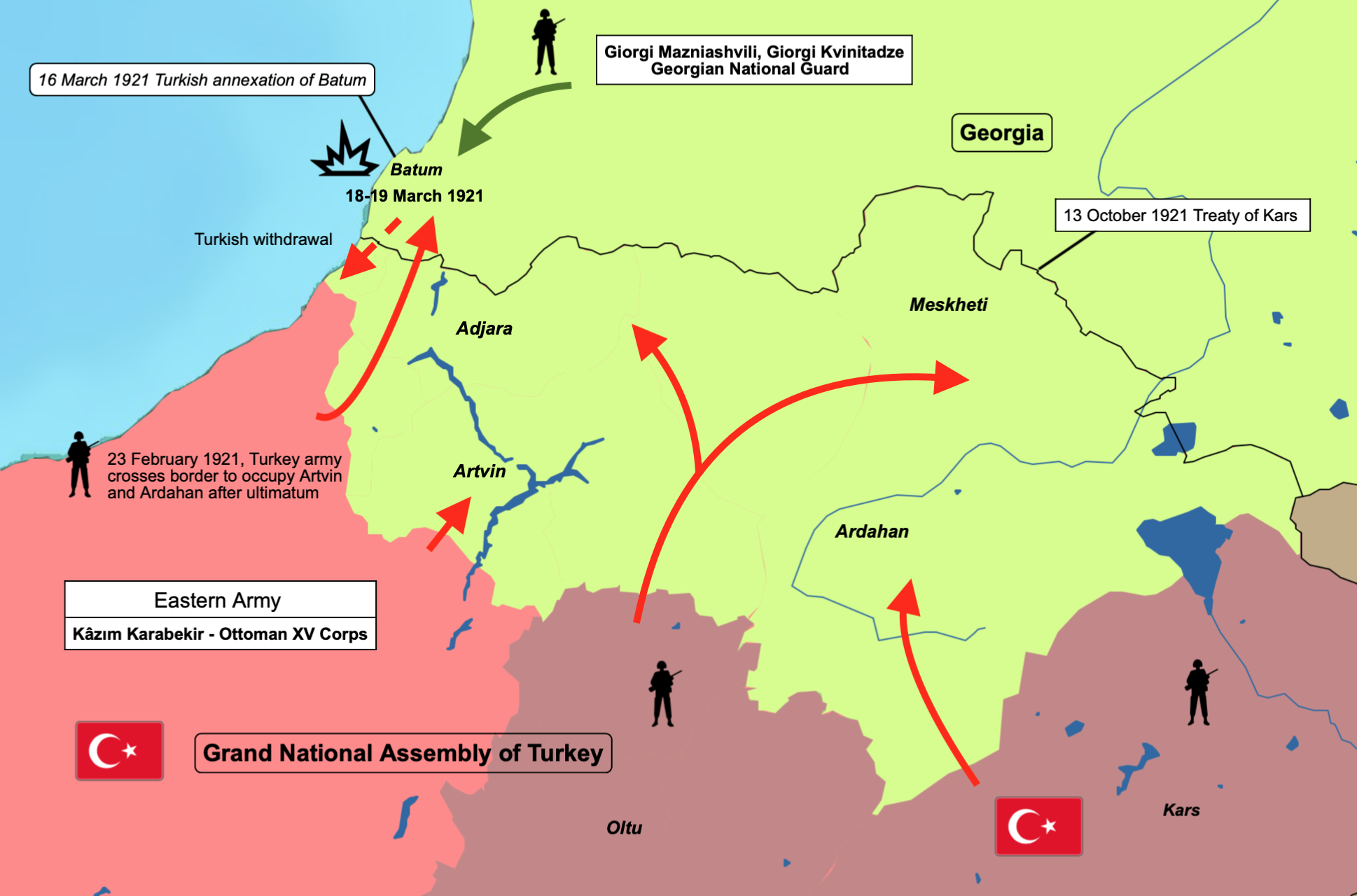 map of Turkish invasion of Georgia in 1921, and the fight over Batum.